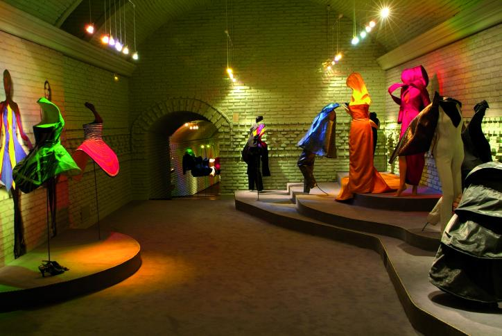 Museo de Manuel Piña